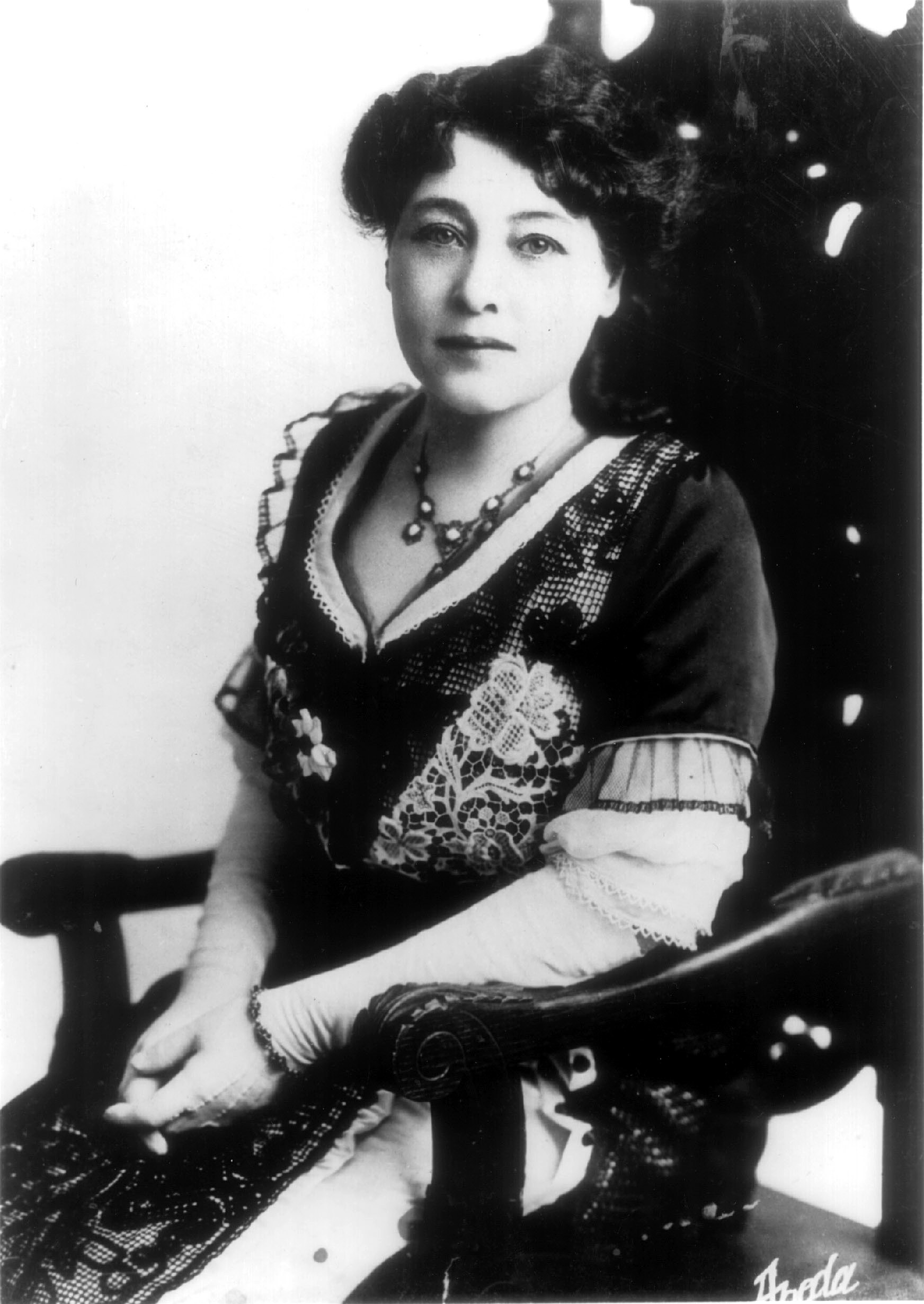 Alice Guy-Blaché portrait picture